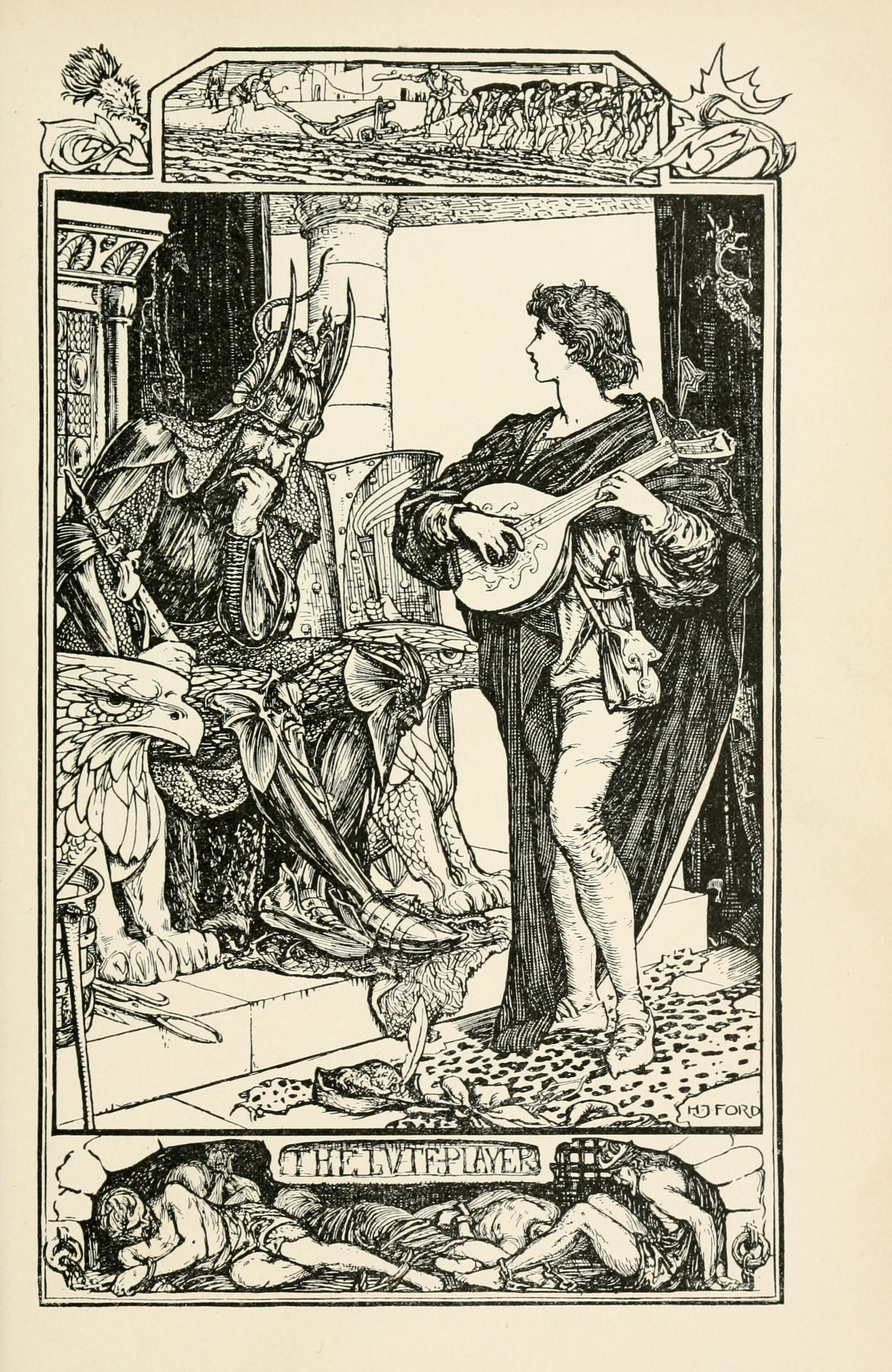 Title: The violet fairy book Year: 1906 (1900s) Authors: Lang, Andrew, 1844-1912 Ford, H. J. (Henry Justice), 1860-1941, ill Subjects: Folklore Fairy tales Publisher: London New York : Longmans, Green Text Appearing Before Image: Tears before theking found any means of sending news of himself to hisdear queen, but at last he contrived to send this letter: Sell all our castles and palaces, and put all our treasures Text Appearing After Image: THE LUTE PLAYER 73 in pawn and come and deliver me out of this horribleprison. The queen received the letter, read it, and wept bitterlyas she said to herself, How can I deliver my dearesthusband ? If I go myself and the heathen king sees mehe will just take me to be one of his wives. If I were tosend one of the ministers ! — but I hardly know if I candepend on them. She thought, and thought, and at last an idea cameinto her head. She cut off all her beautiful long brownhair and dressed herself in boys clothes. Then she tookher lute and, without saying anything to anyone, she wentforth into the wide world. She travelled through many lands and saw many cities,and went through many hardships before she got to thetown where the heathen king lived. When she got thereshe walked all round the palace and at the back she sawthe prison. Then she went into the great court in frontof the palace, and taking her lute in her hand, she beganto play so beautifully that one felt as though one couldn